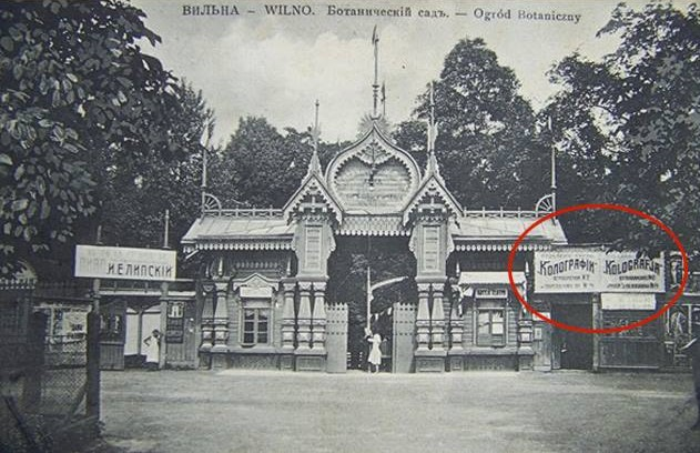 Billboard above the Botanical Garden (now Bernardinai Garden) main gates of the first cinema screening in Vilnius in 1897.